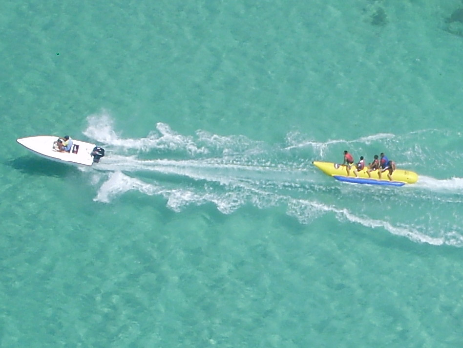 Aerial photo of Varadero, Cuba. Banana boat